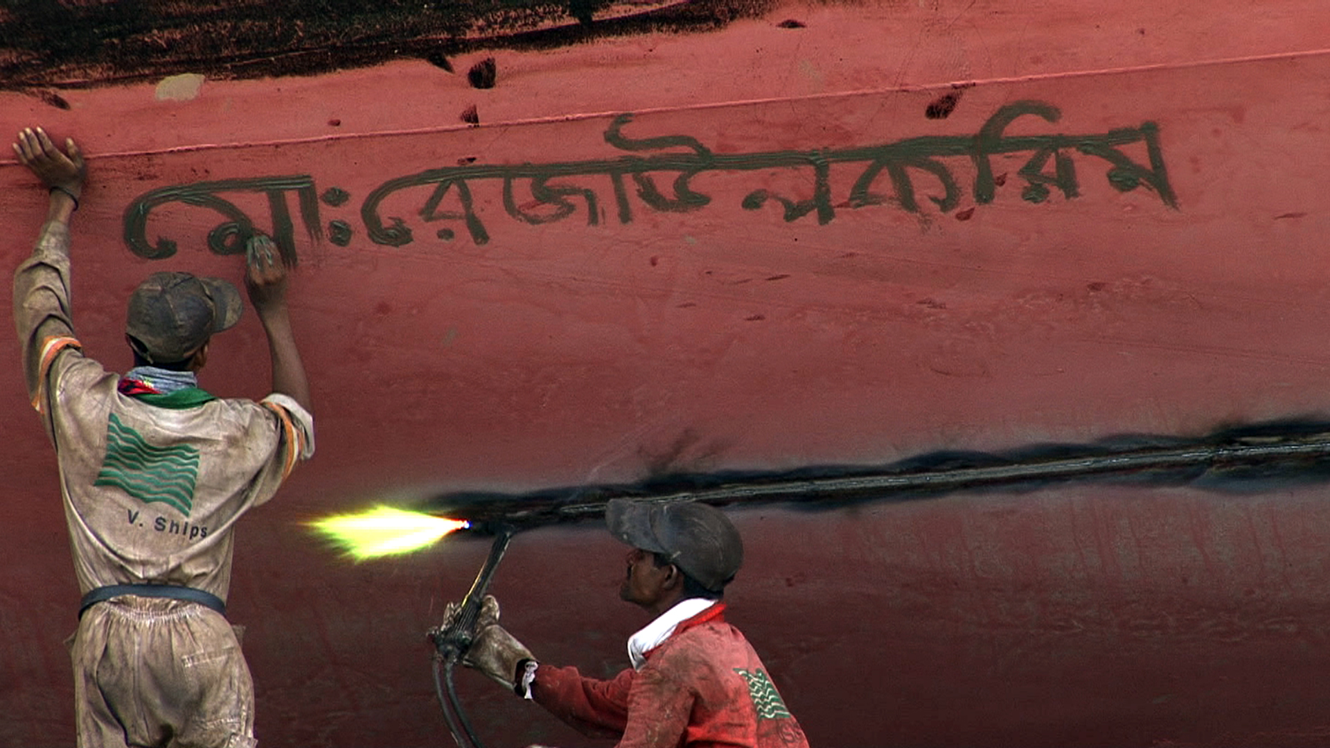 Shipwreck in Chittagong